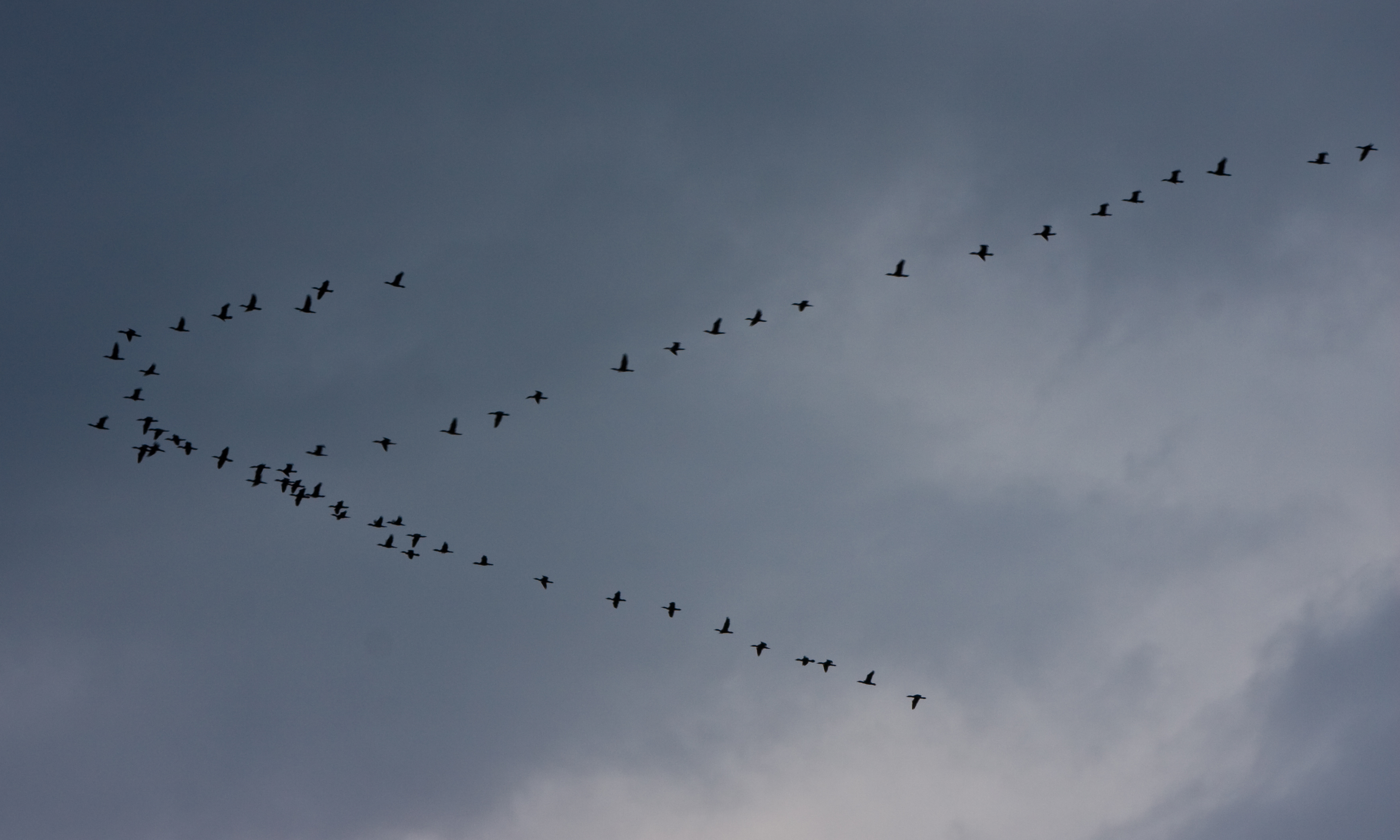 Migration